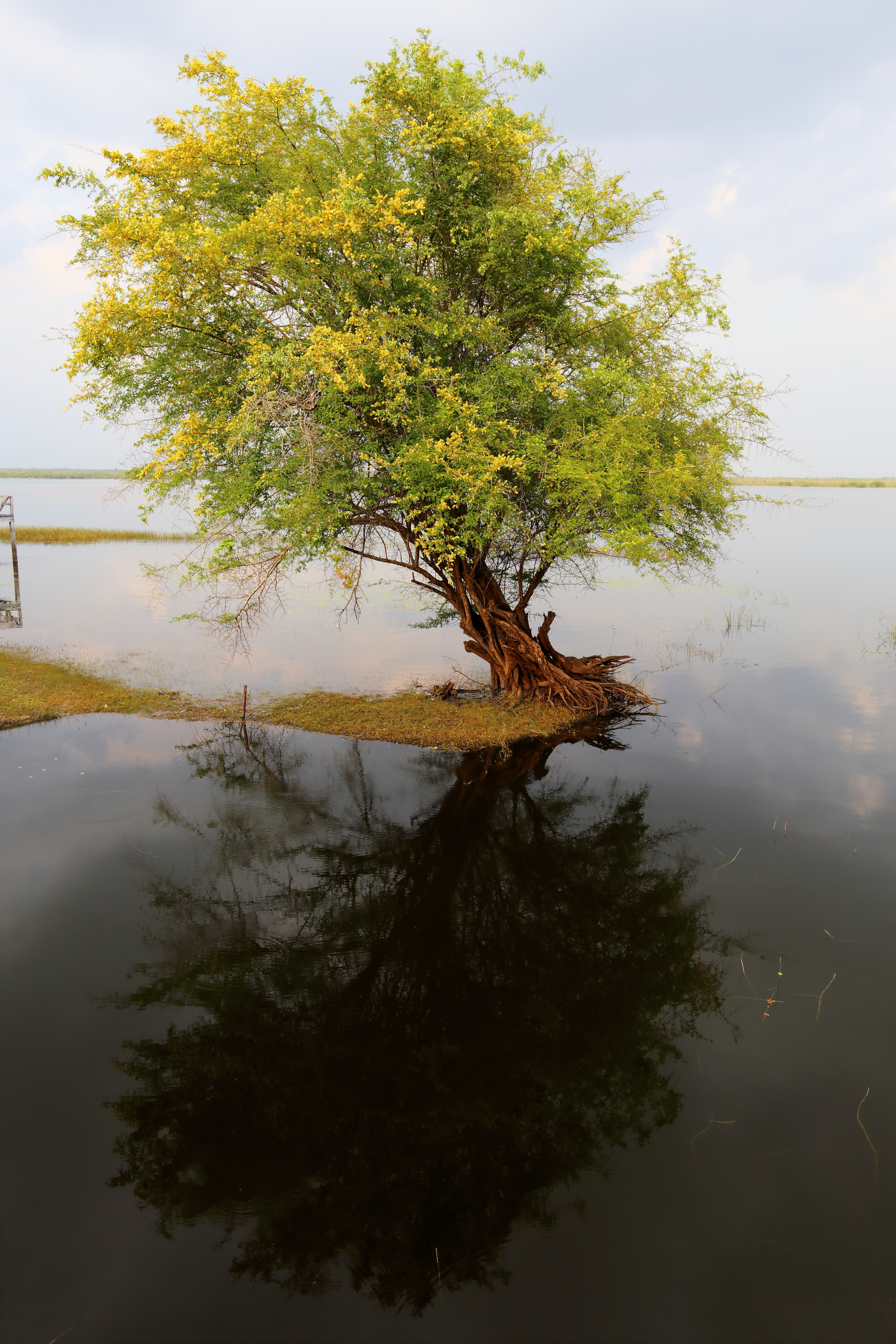 Logwood, Crooked Tree Lodge, Crooked Tree Village, Belize District, Belize